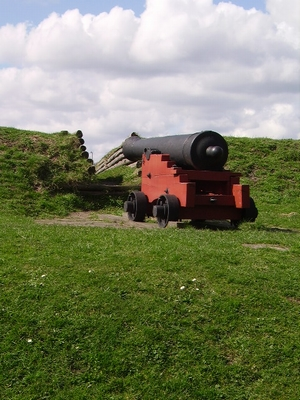 fortifications Naarden (Netherlands)